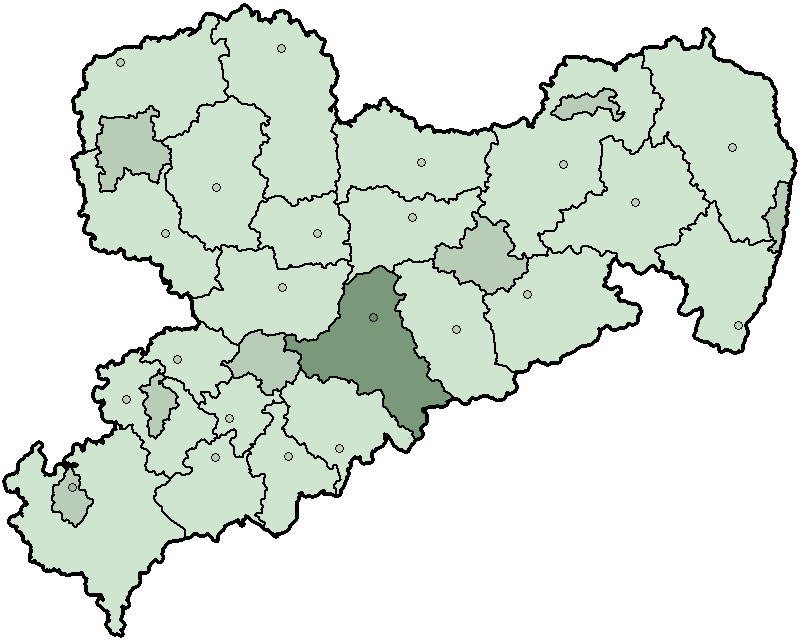 Map of the state Saxony in Germany before 2008, district Freiberg highlighted.